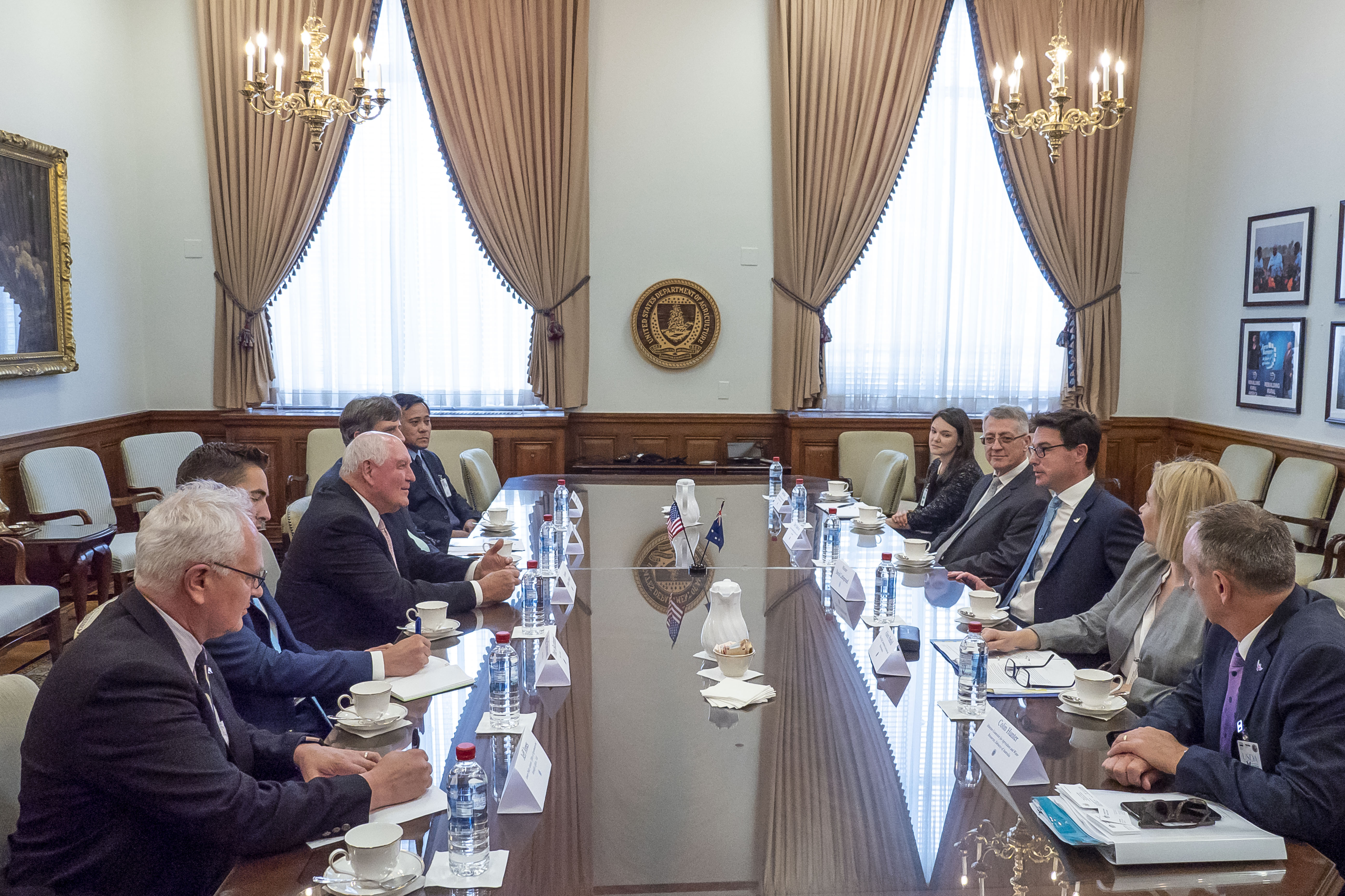 U.S. Department of Agriculture (USDA) Secretary Sonny Perdue meets with Australia Minister for Agriculture & Water Resources David Littleproud at USDA headquarters in Washington, D.C., July 16, 2018. USDA Photo by Preston Keres